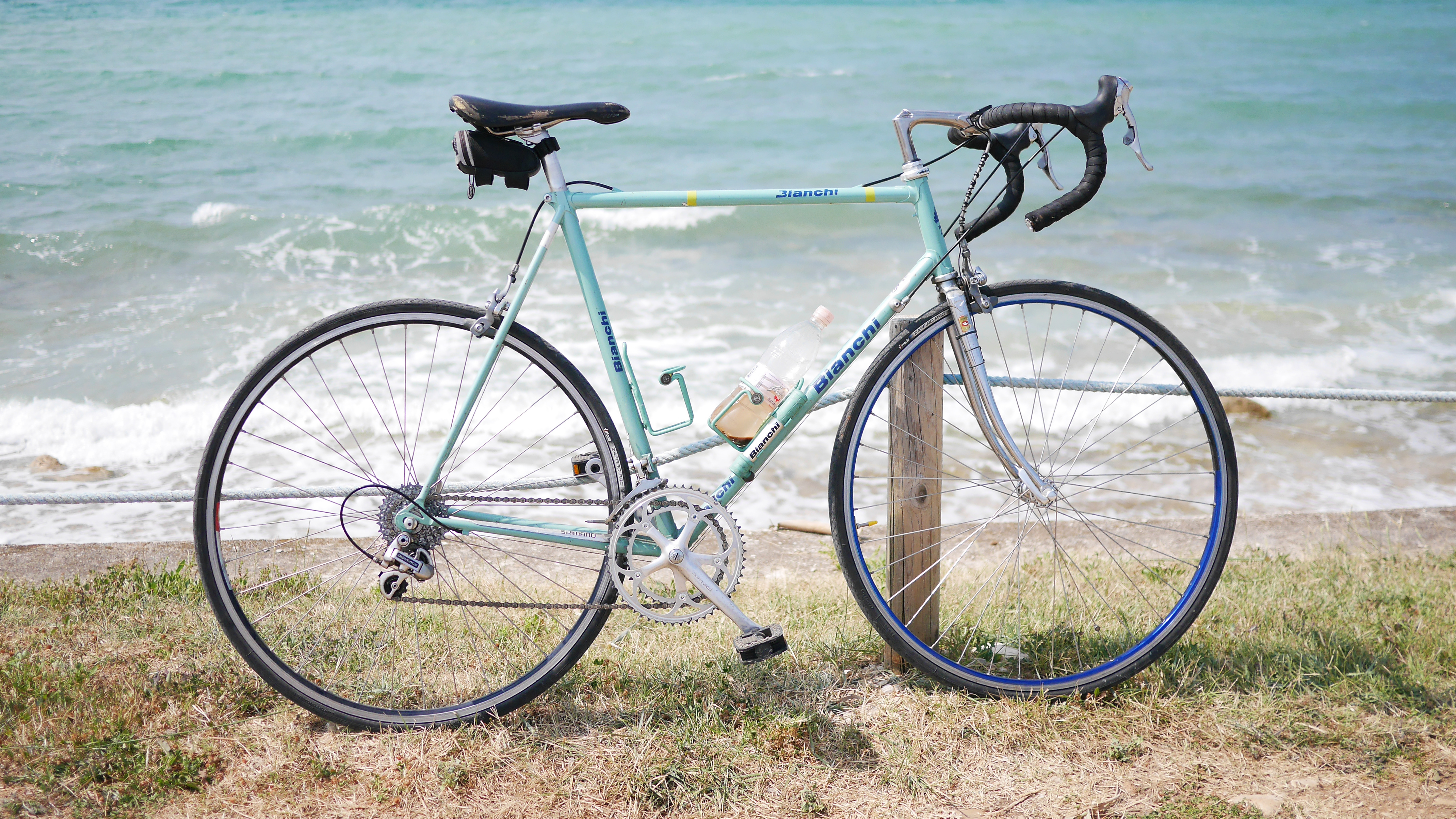 Bianchi by Adriatic Sea, model year late 1980s, Cr-Mo, 2×8 Dura Ace (series 7400), brakes Shimano Ultegra 6400